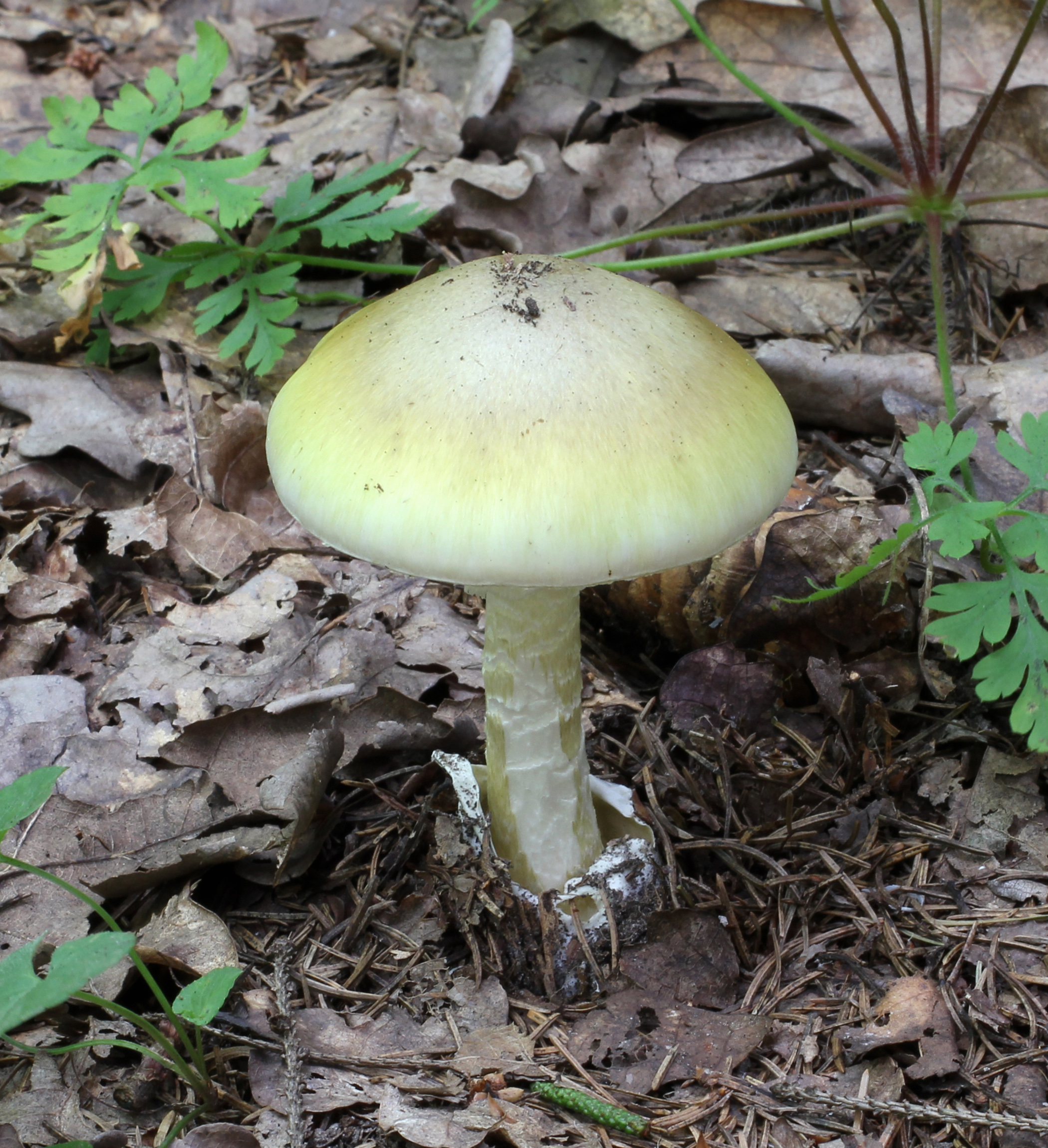 The death cap. Ukraine.